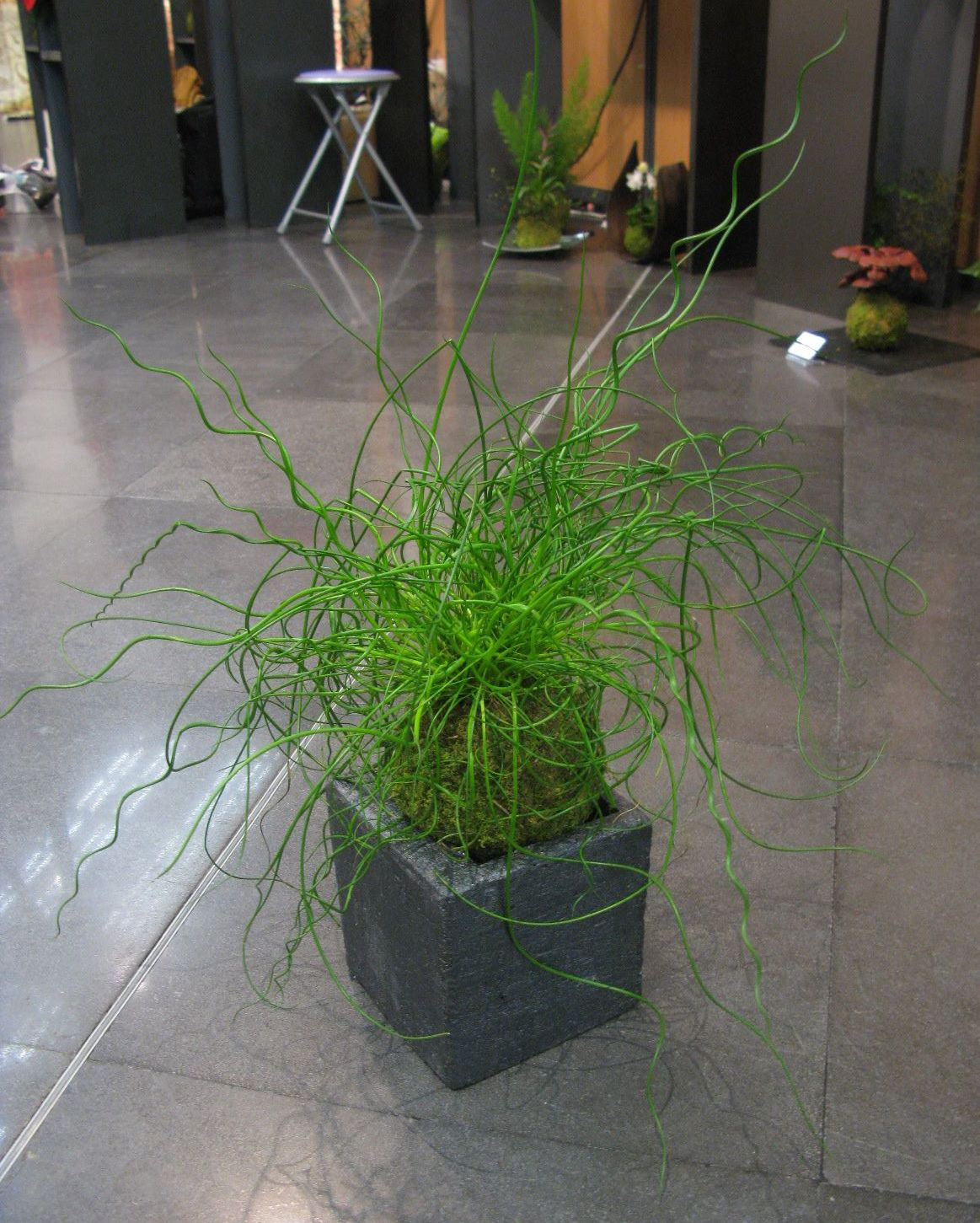 Kokedama using Juncus effusus - Spiral rush.